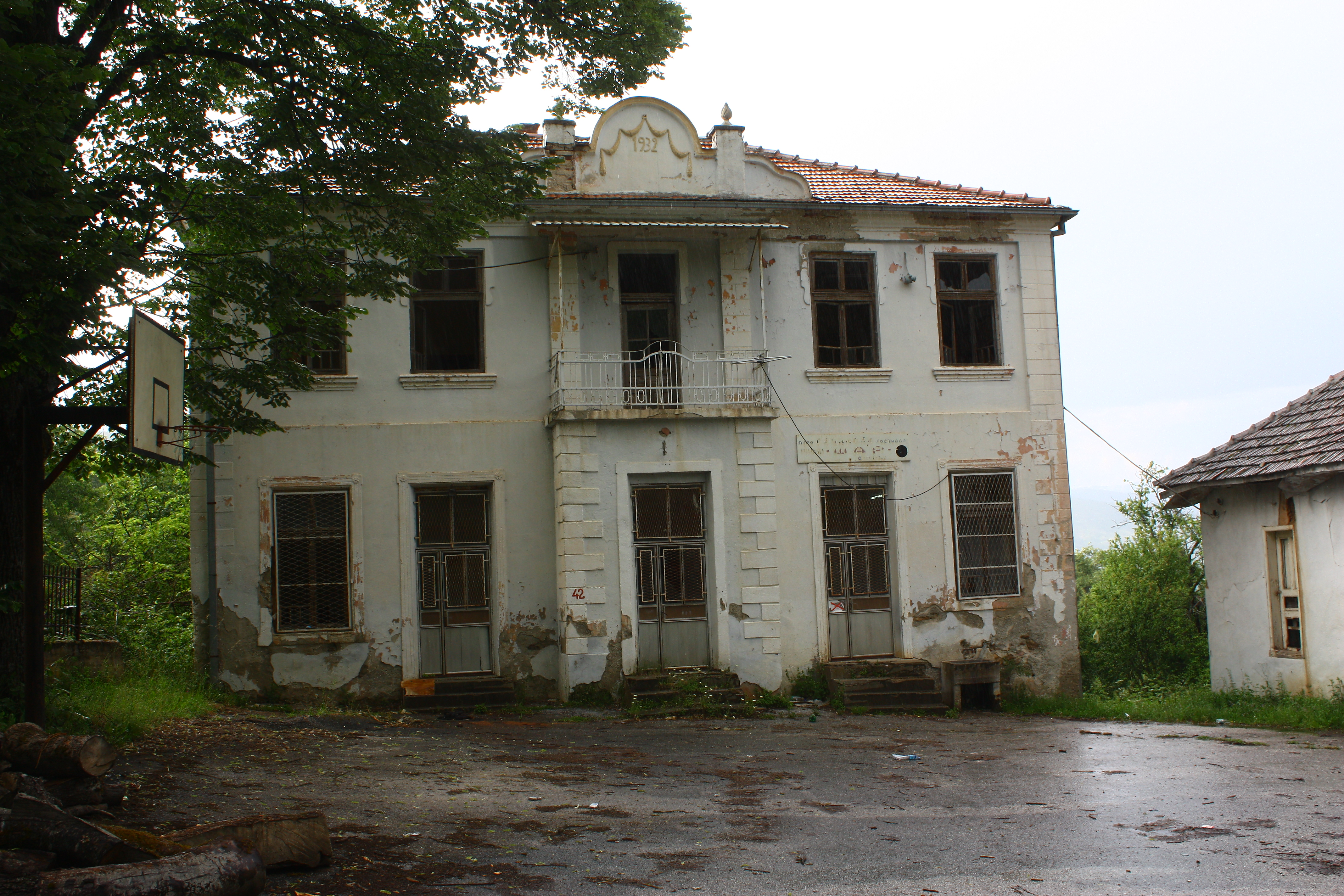 Village of ‚Požarane, Macedonia